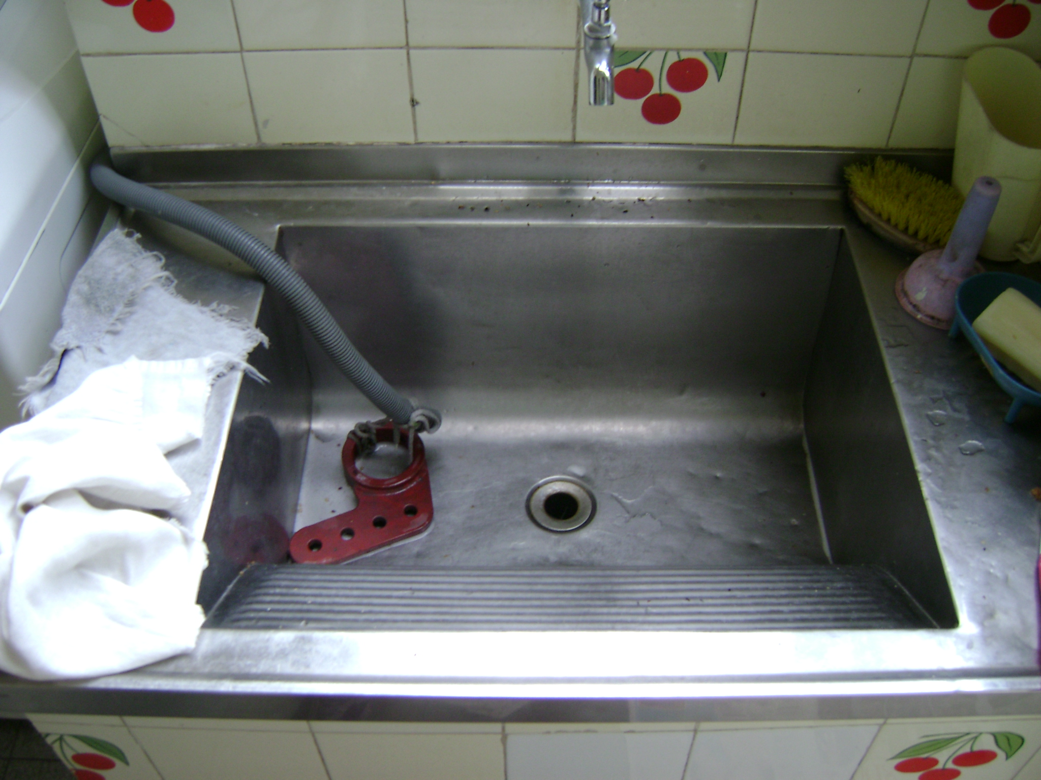 Tanque para lavar roupas.